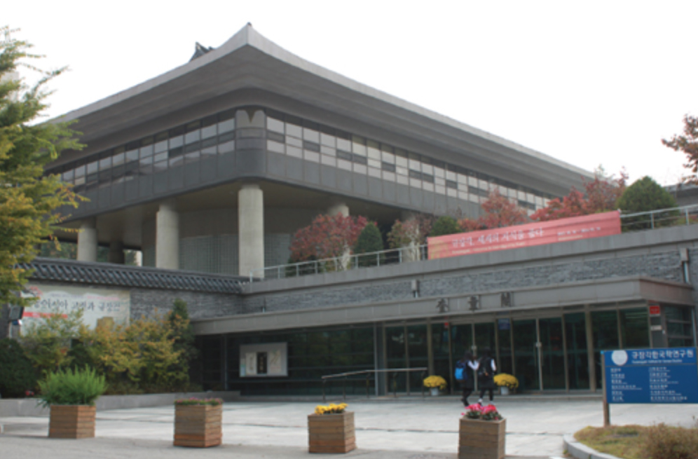 Kyujanggak Institute of Korean Studies building. Main entrance, view from the outside presented on the university website: [1]